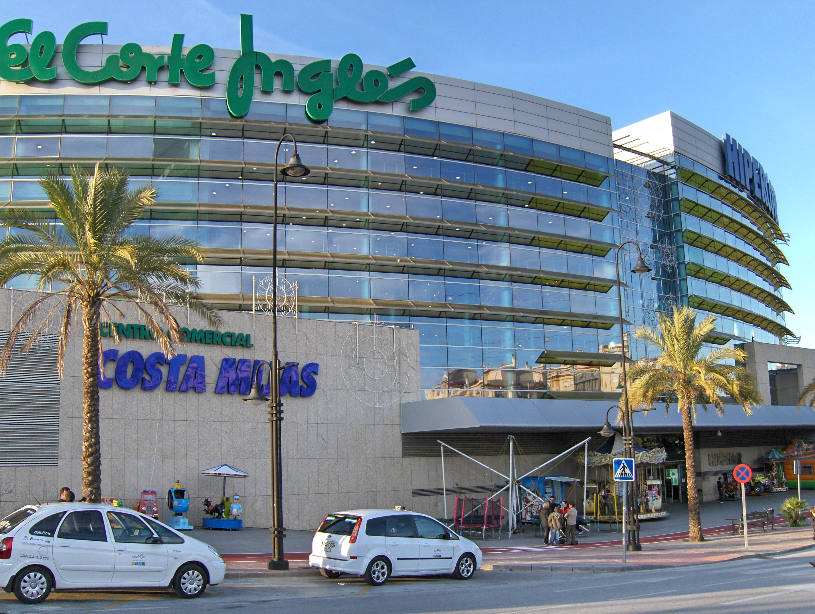 Shopping Centre Costa Mijas in Las Lagunas, Mijas, Spain.